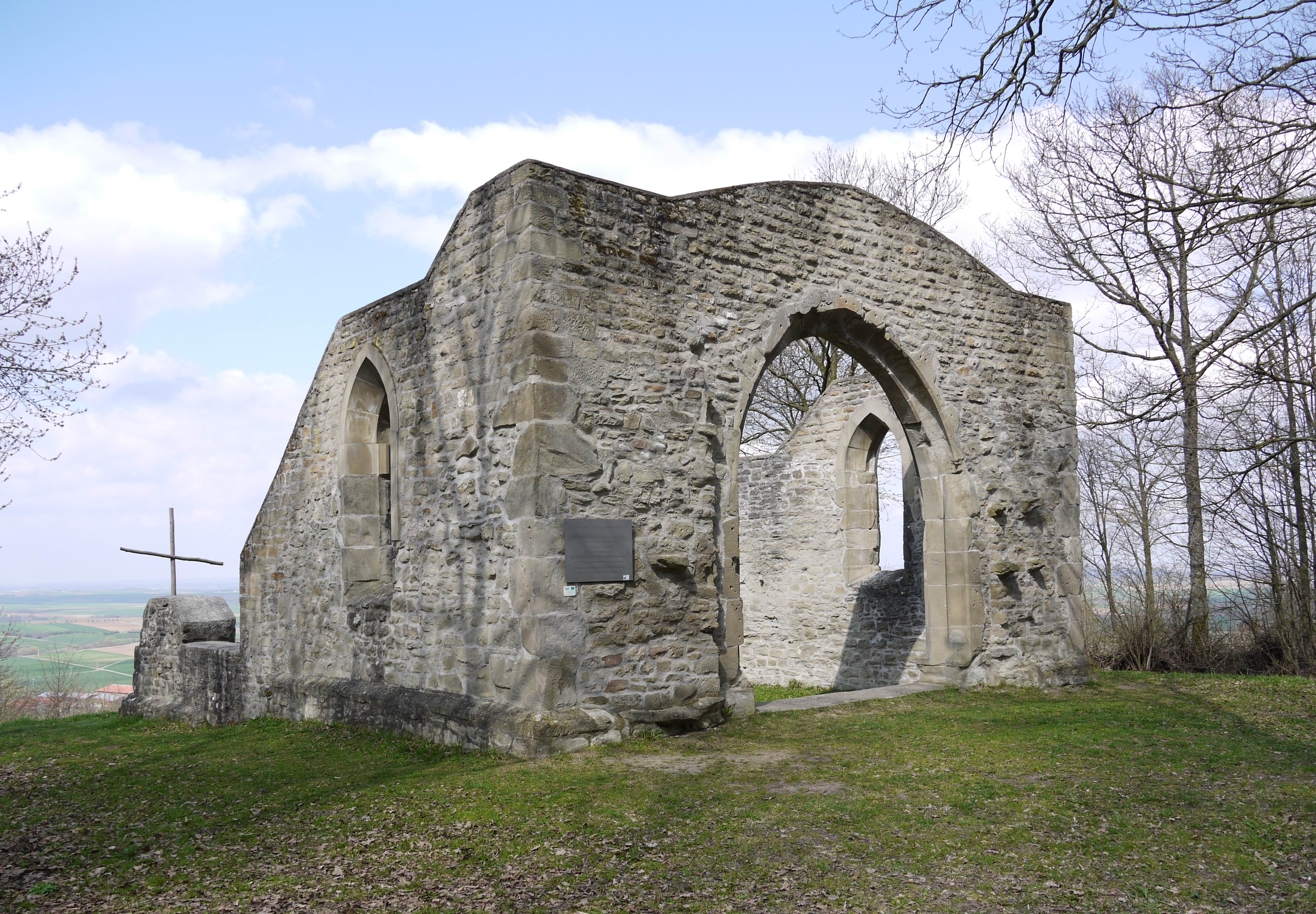 Ruin of a chapel nearby Bullenheim